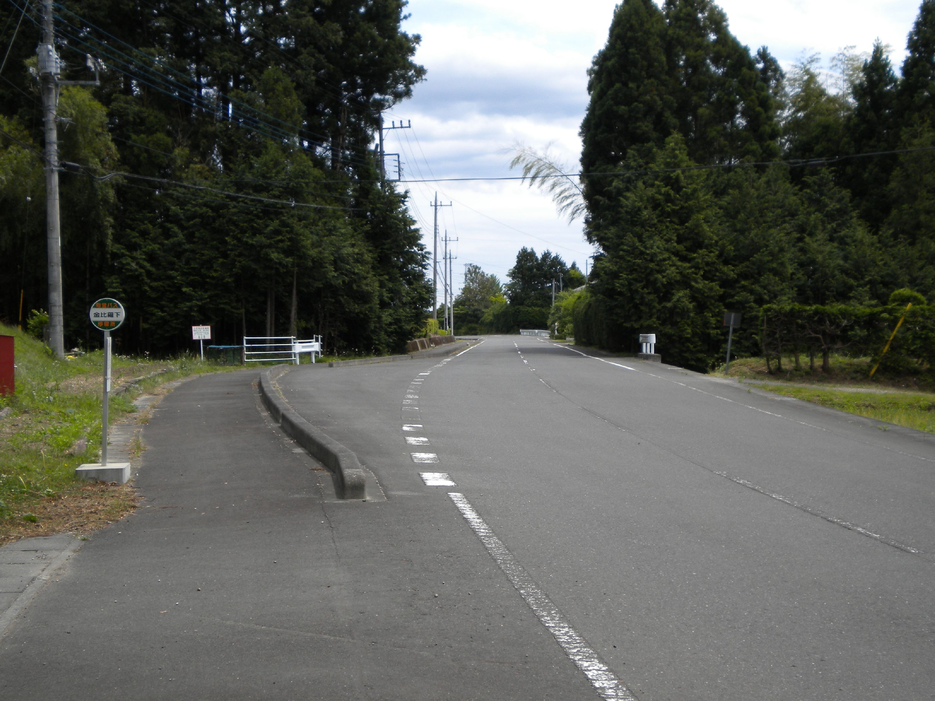 The Tochigi Prefectural Road Route 273 in Kamiterashima, Shioya Town